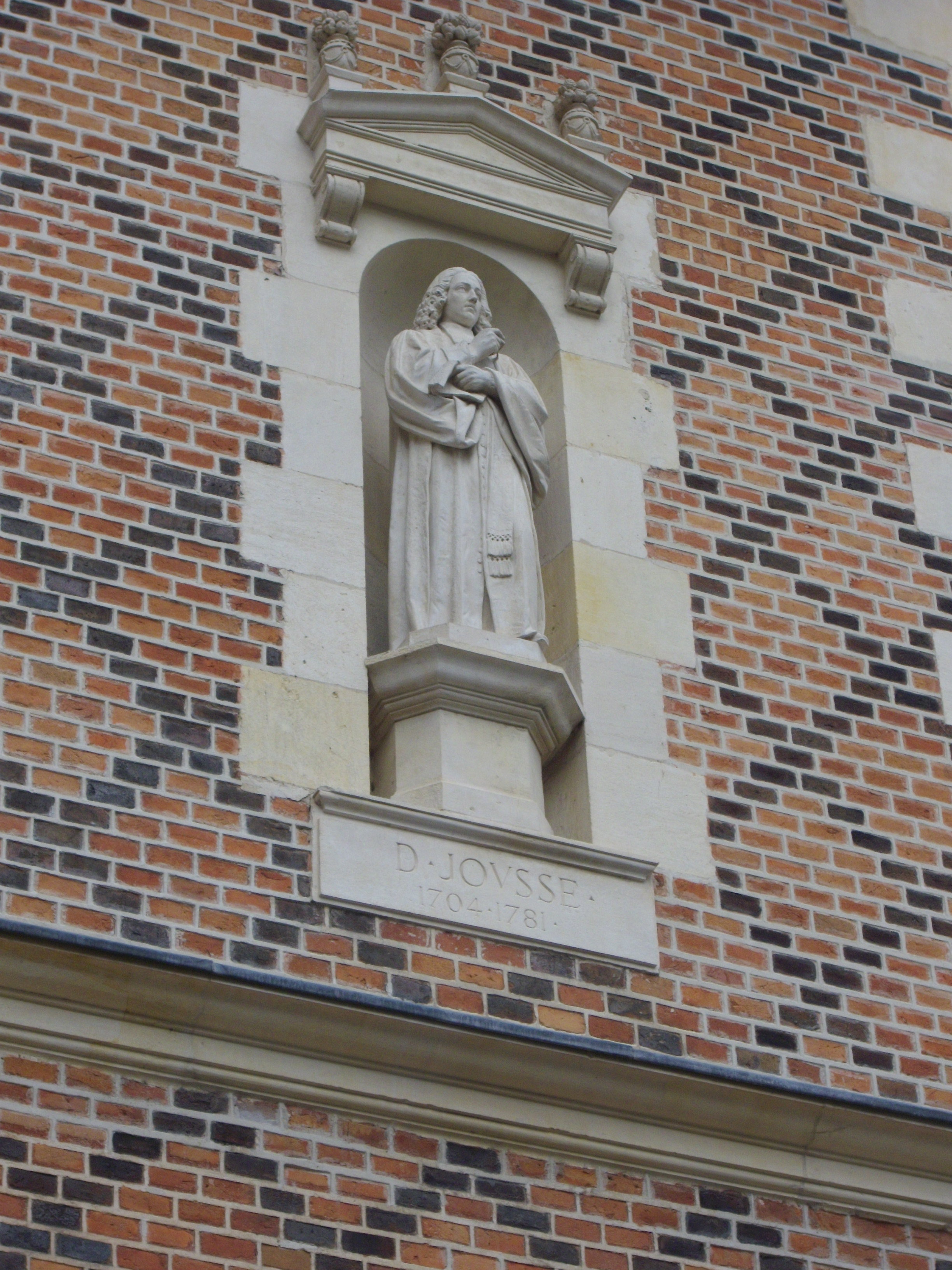 Groslot hotel, in Orléans (Loiret, France) : statue of Daniel Jousse .